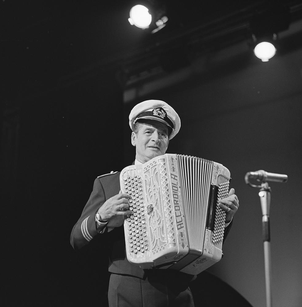 Harry van der Velde